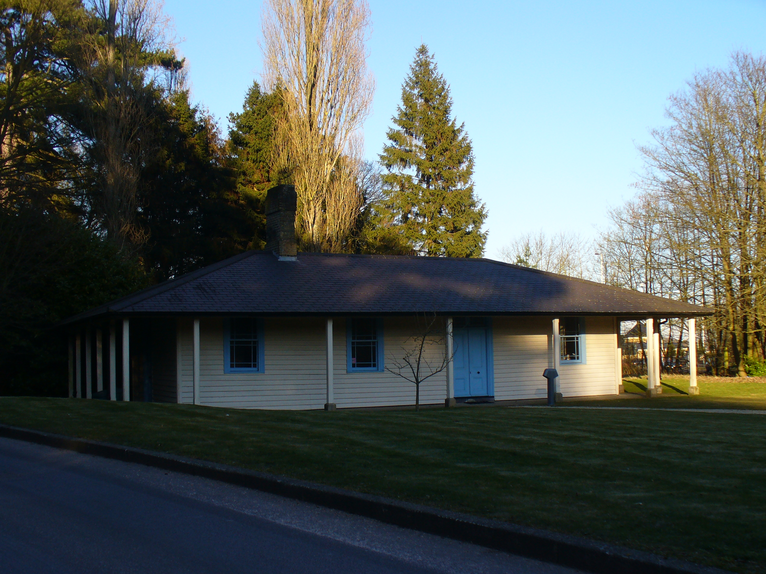 Aldershot, Royal Pavilion Queen Victoria used the Royal Pavilion when she came to Aldershot to review the troops. Today it shares parkland with large, modern office blocks.